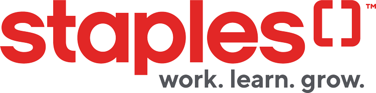 The Canadian logo of Staples